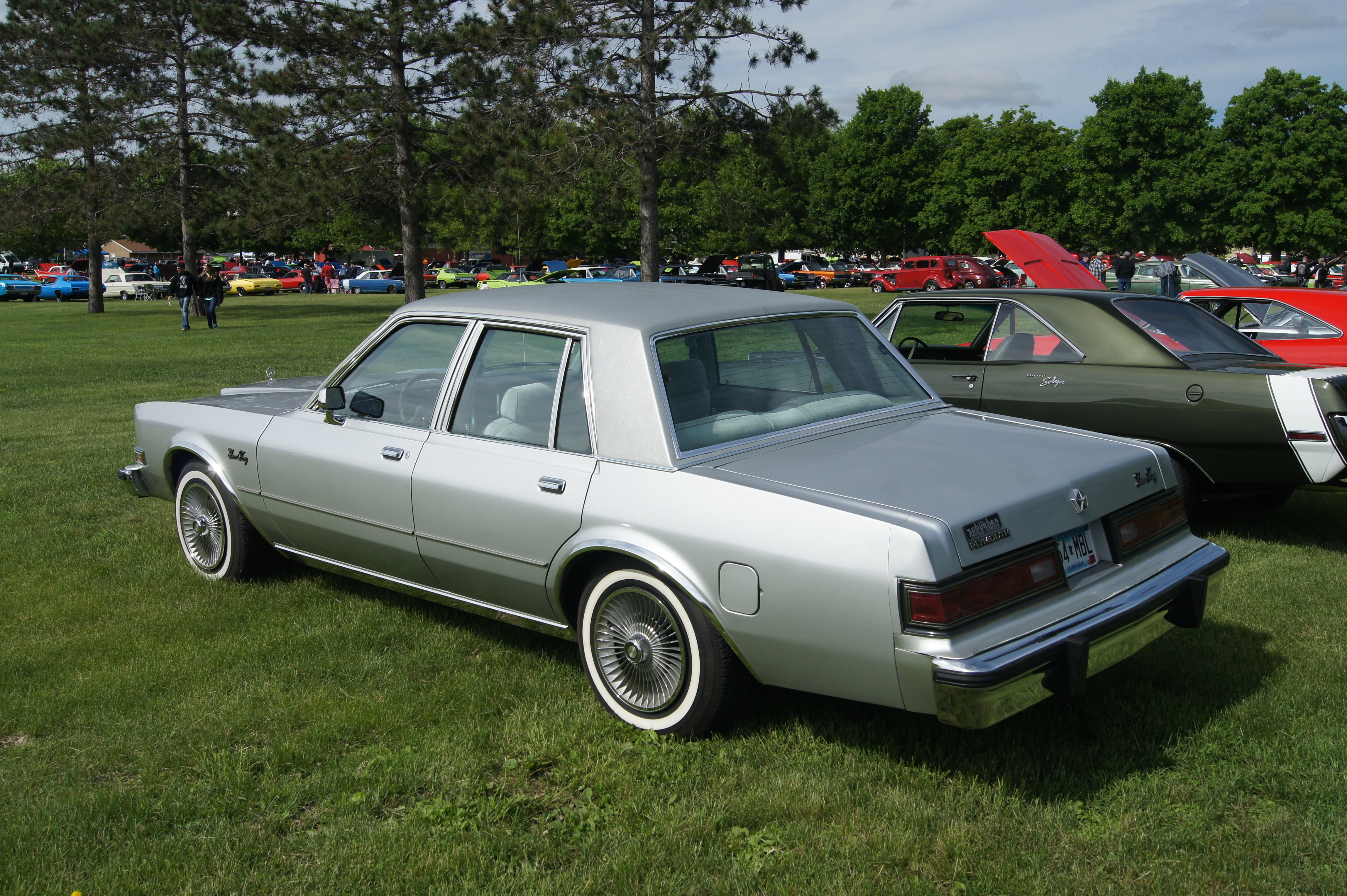 1985 Plymouth Gran Fury at the 2015 Midwest Mopars in the Park National Car Show & Swap Meet. Event held at the Dakota County Fairgrounds in Farmington, Minnesota, on May 30 and 31, 2015.